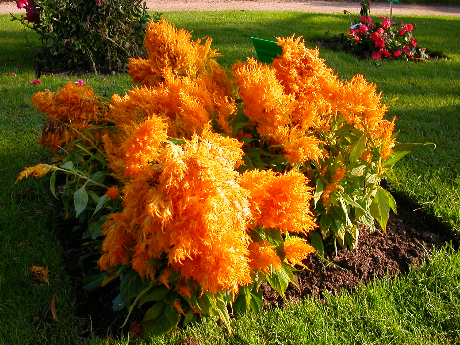 Celosia argentea (Fresh Look Yellow) in the Jardin des plantes in Nantes